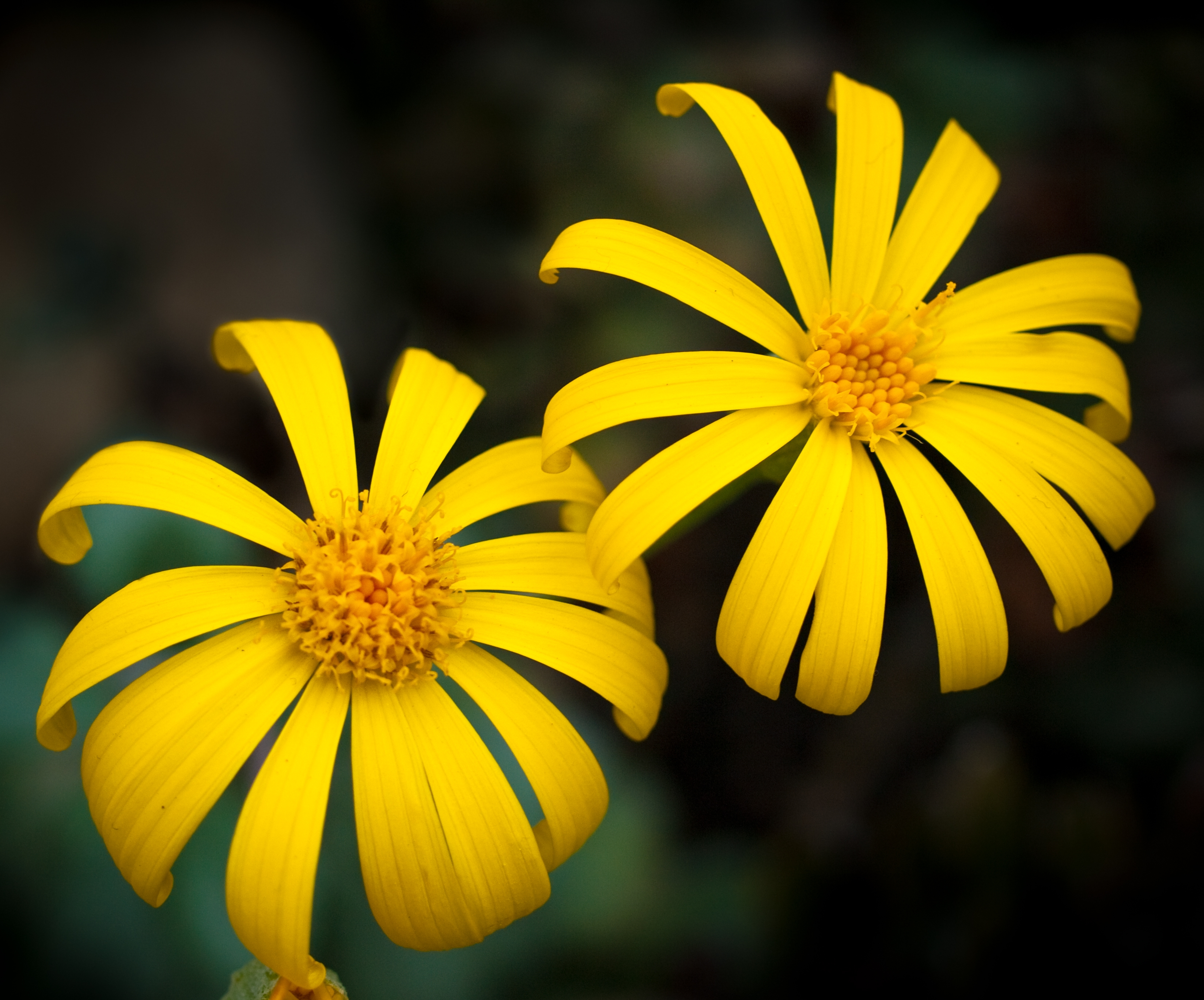 Senecio Medley Woodii at the Tropical Extravaganza display at Kew Gardens